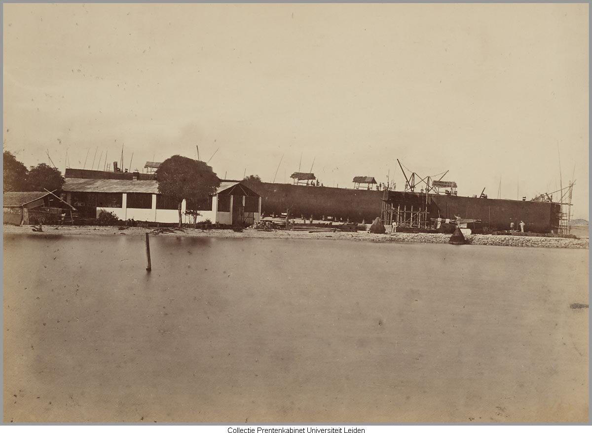 Batavia Dock was a floating dry dock built in Scotland for the Nederlands Indische Droogdok Maatschappij (NIDM). She was assembled on a slipway at Amsterdam Island (now Indonesia) and launched in January 1877. She is recognized by her 'ship' form. Seen from the west.